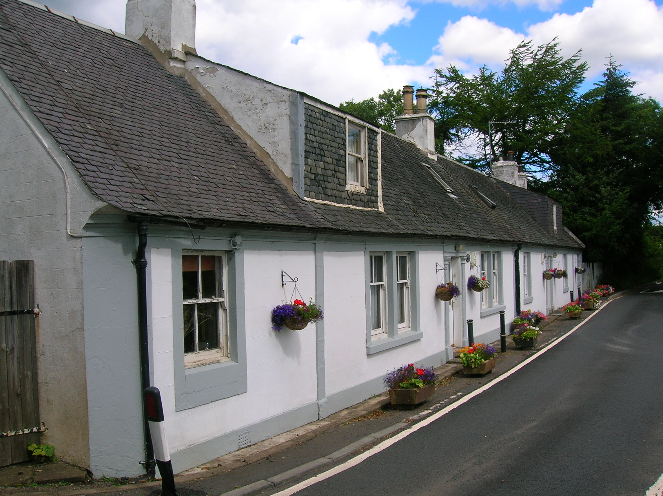 Part of the old Dalgarven Village, North Ayrshire, Scotland.